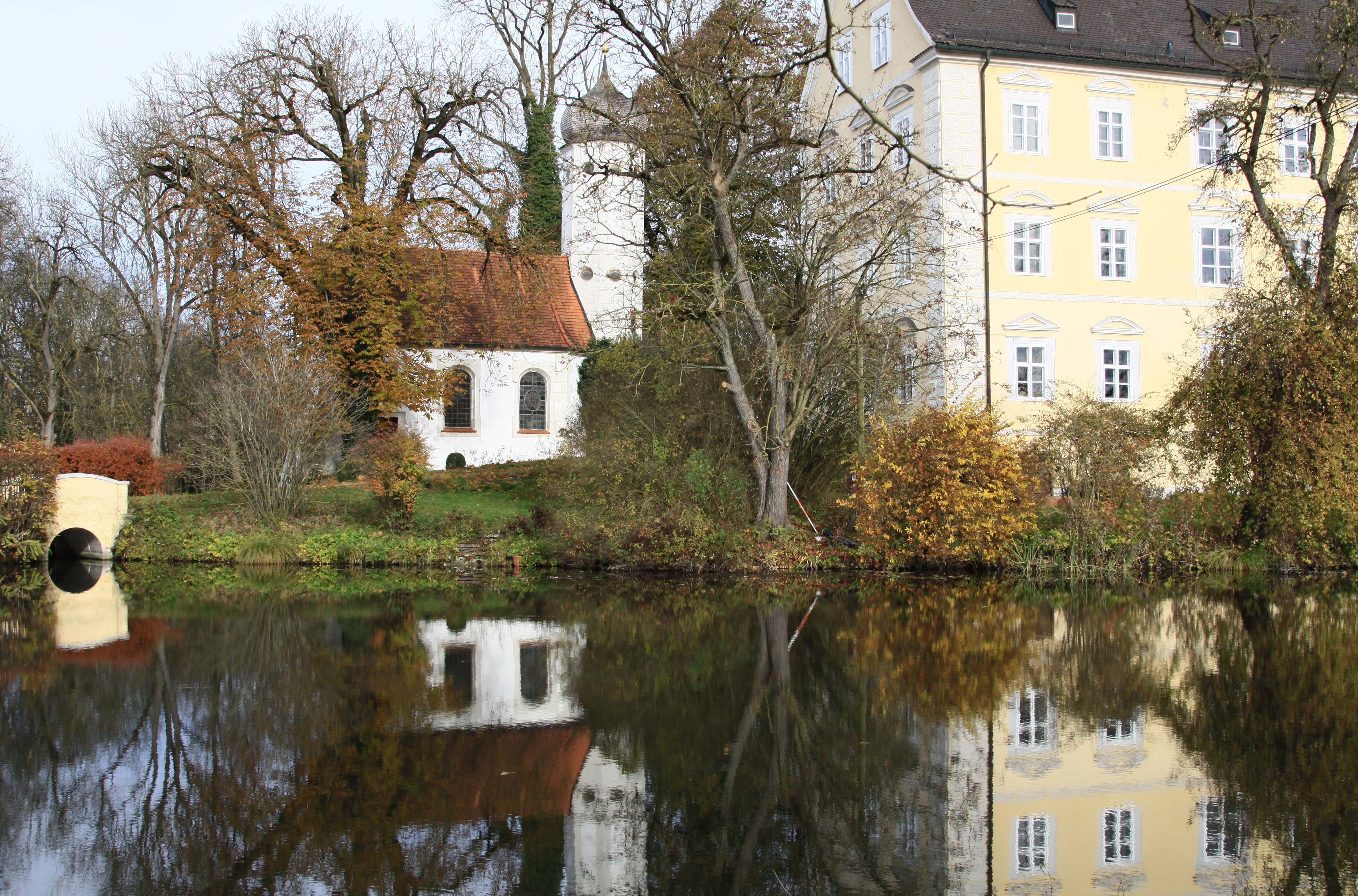 Erching castle near Freising (Bavaria, Germany) seen from south-west